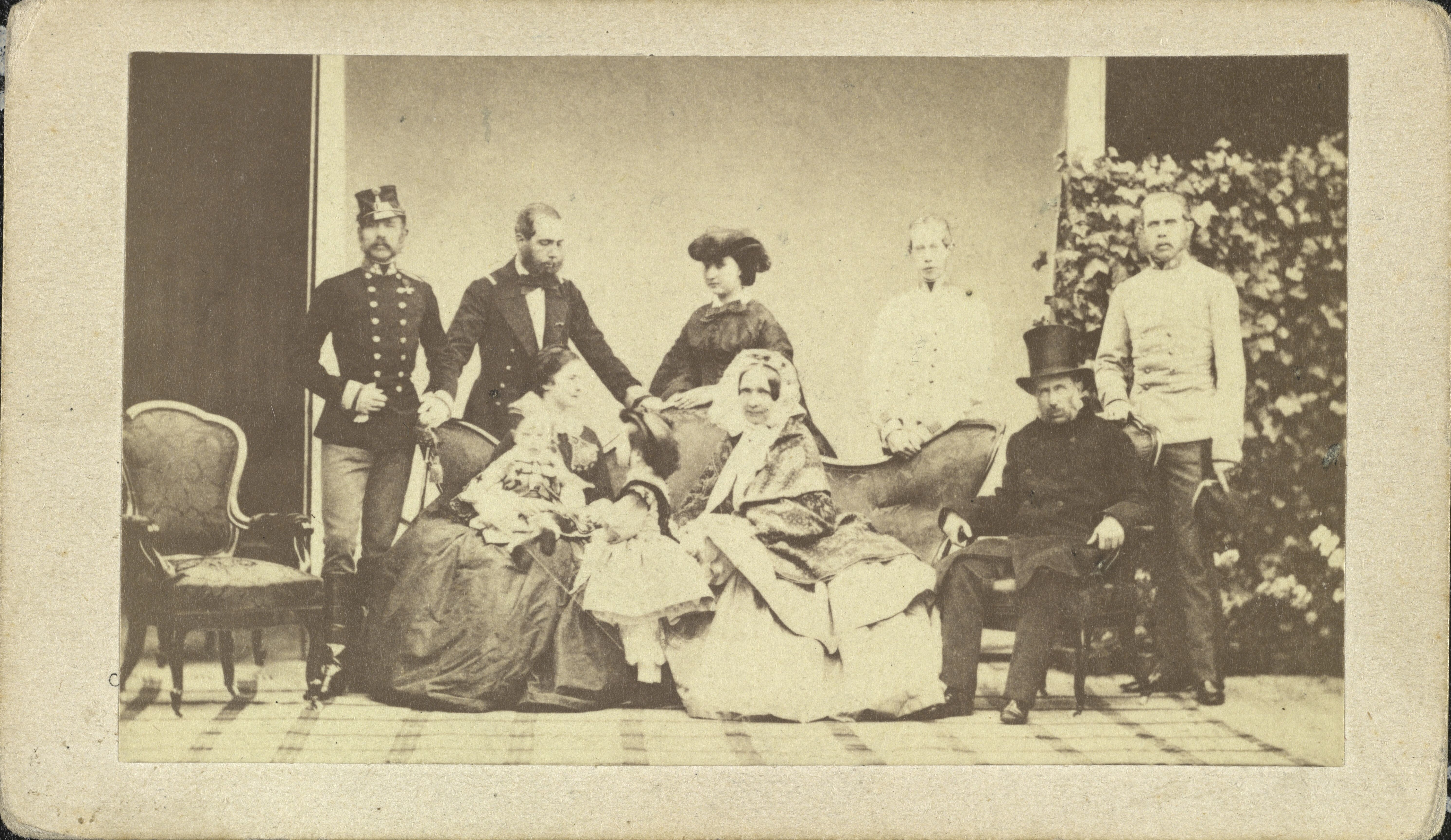 Emperor Francis Joseph I. with his family: Back row, standing from left to right are Emperor Franz Joseph himself, Archduke Ferdinand Max and his wife Charlotte of Belgium, Archduke Ludwig Victor and Archduke Karl Ludwig.Front row, from left to right are Empress Elisabeth with her children Crown Prince Rudolf and Archduchess Gisela and the Emperor's parents, Princess Sophie of Bavaria and Archduke Franz Carl of Austria.